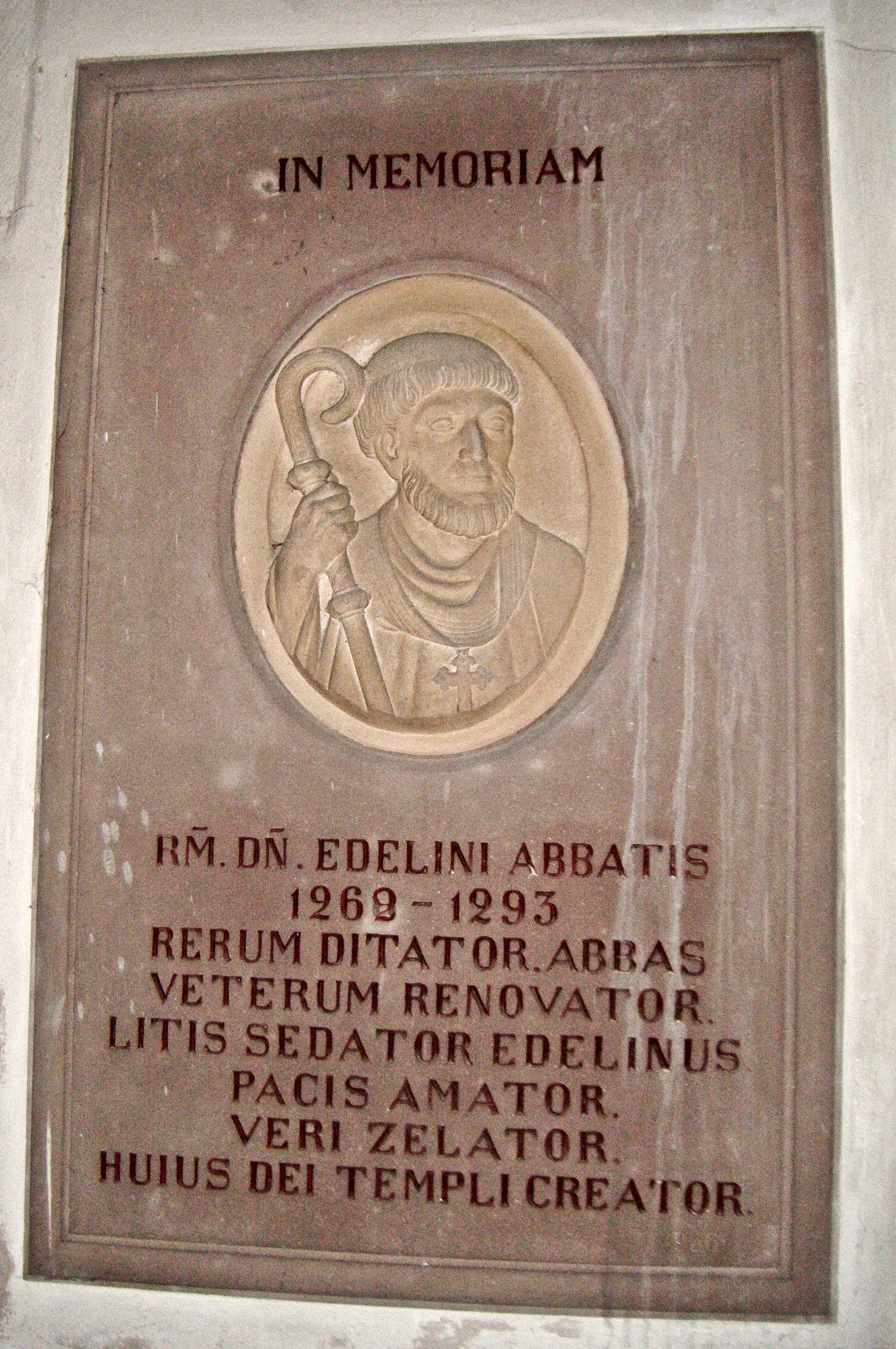 Gedenktafel für Abt Edelin von Weissenburg (+ 1293) in der Klosterkirche St. Peter und Paul, Weissenburg, als Erbauer des heutigen Gotteshauses.